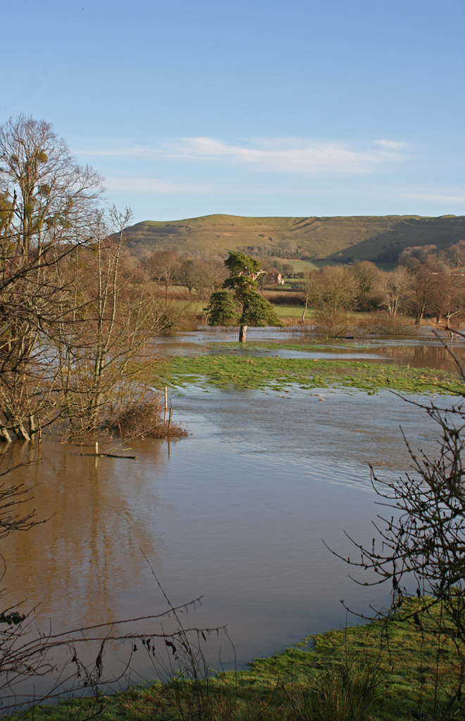 Flooded River Stour at Shillingstone with Hambledon Hill in the background, Dorset, England, UK.